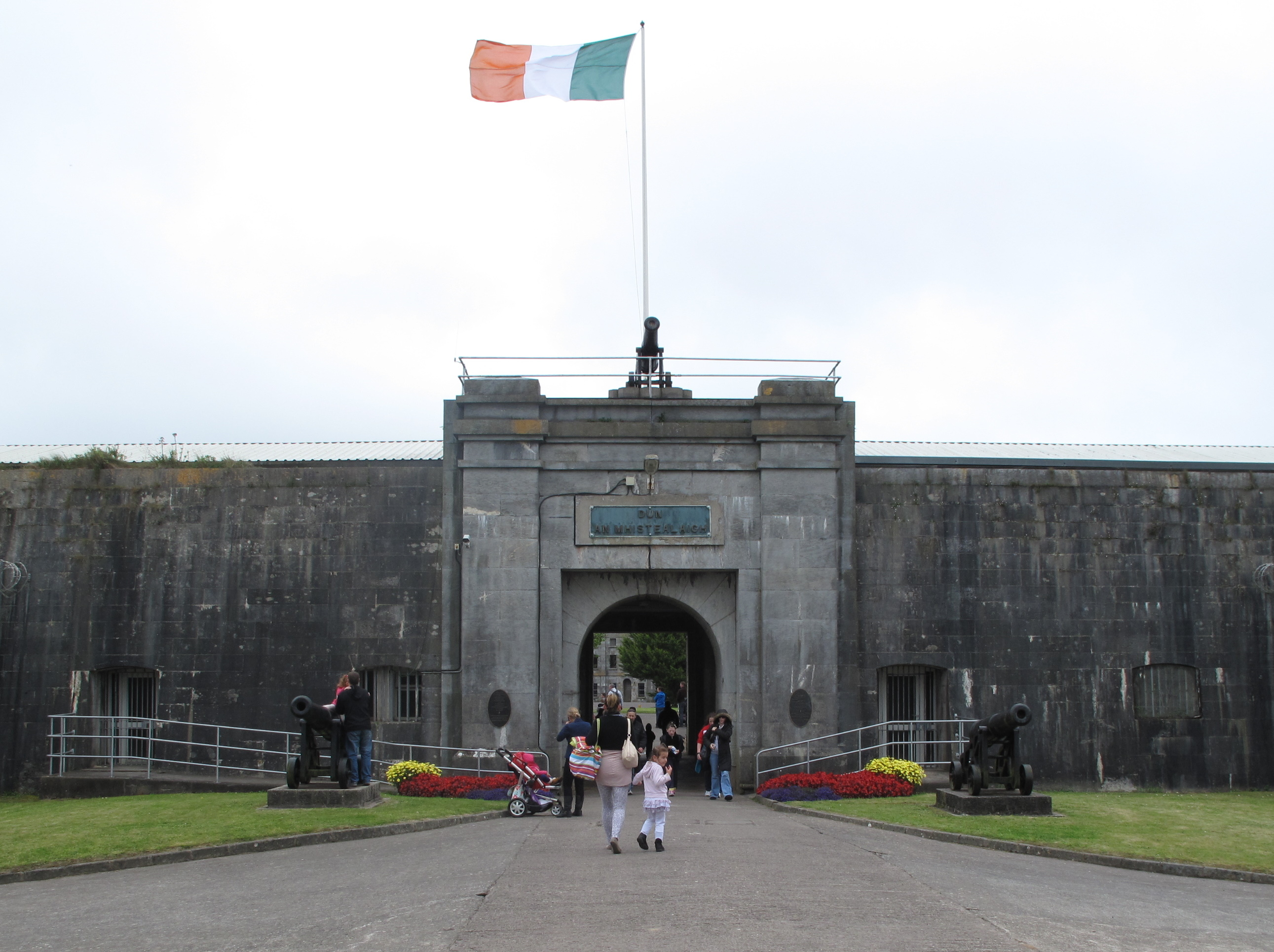 Spike Island, County Cork. Gates to Fort Mitchel. Tourists on family "open day" in September 2012